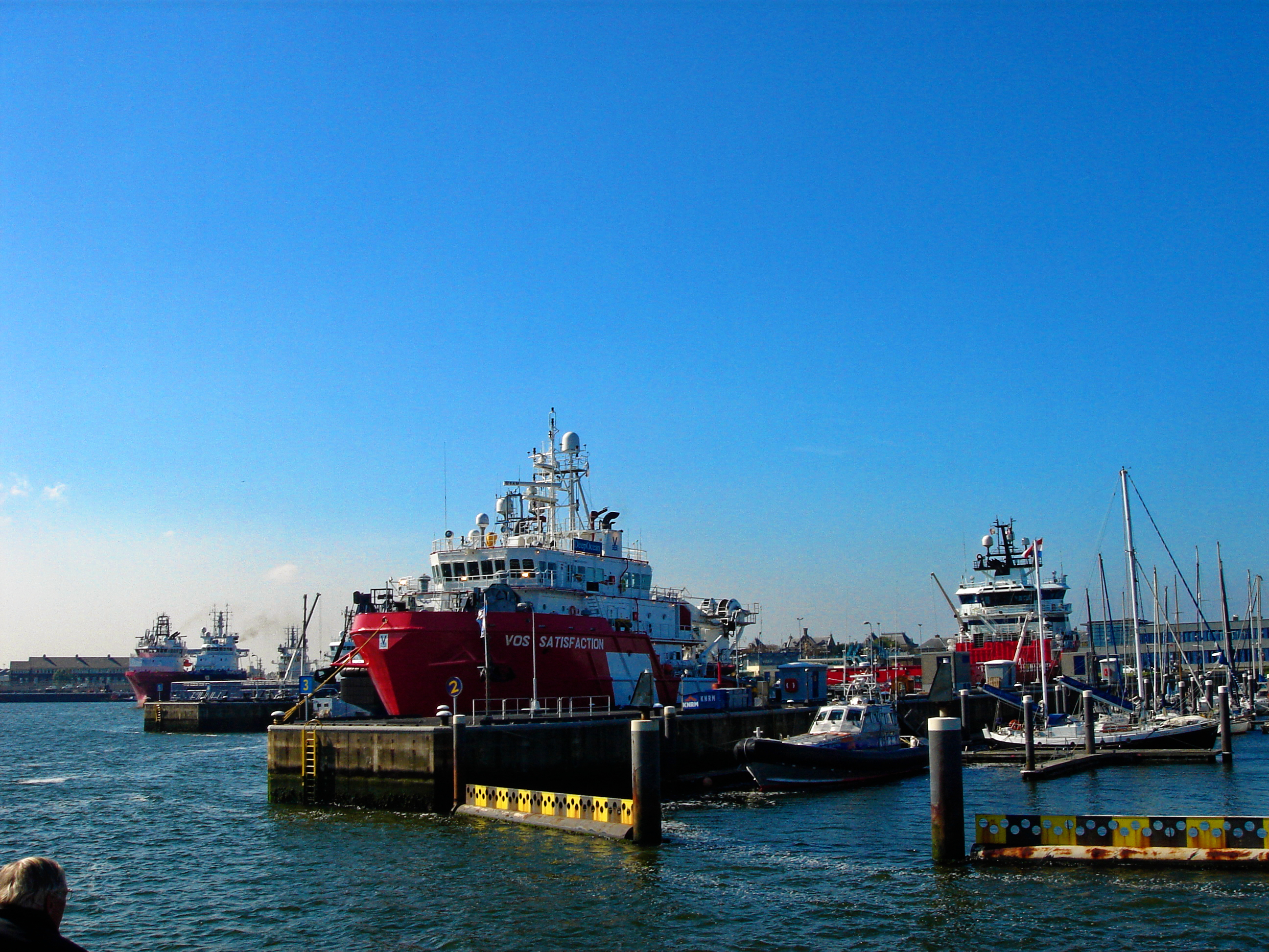 Den Helder - Marinehaven Willemsoord - View West